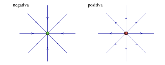 Linhas de campo elétrico perto de uma carga negativa (esquerda) e de uma